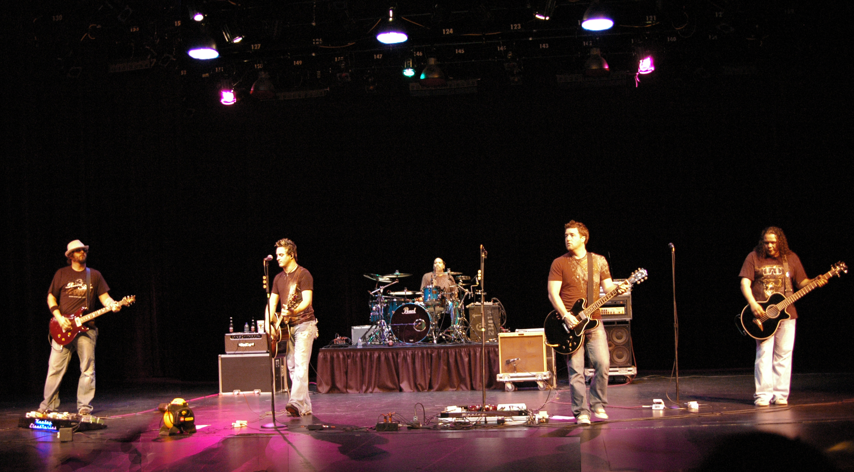 No Justice is a rock band from Stillwater, Oklahoma. Their set was loud and distorted. The distortion blended the sounds into one strain. We couldn’t tell the drums from the bass and the three guitars were unidentifiable from the vocals. The words were almost completely obscured. We were told that the band preferred it that way at the sound check. Too bad. From left: Jerry Payne, lead guitar; Steve Rice, lead singer; Armando Lopez, drummer/percussionist; Brandon Jackson, rhythm guitarist; Joey Trevino, bass.